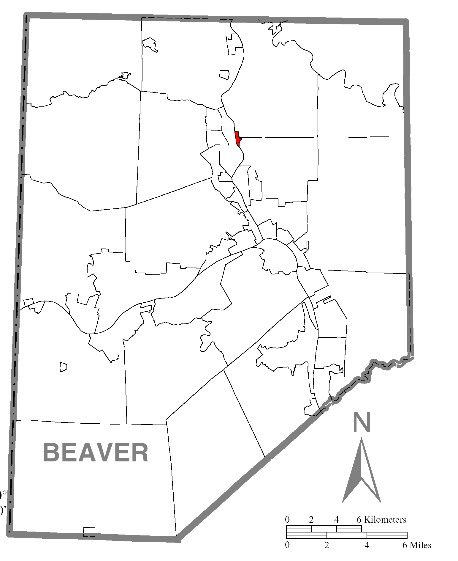 A map of Beaver County showing Eastvale, Pennsylvania (alternate) highlighted on the map.